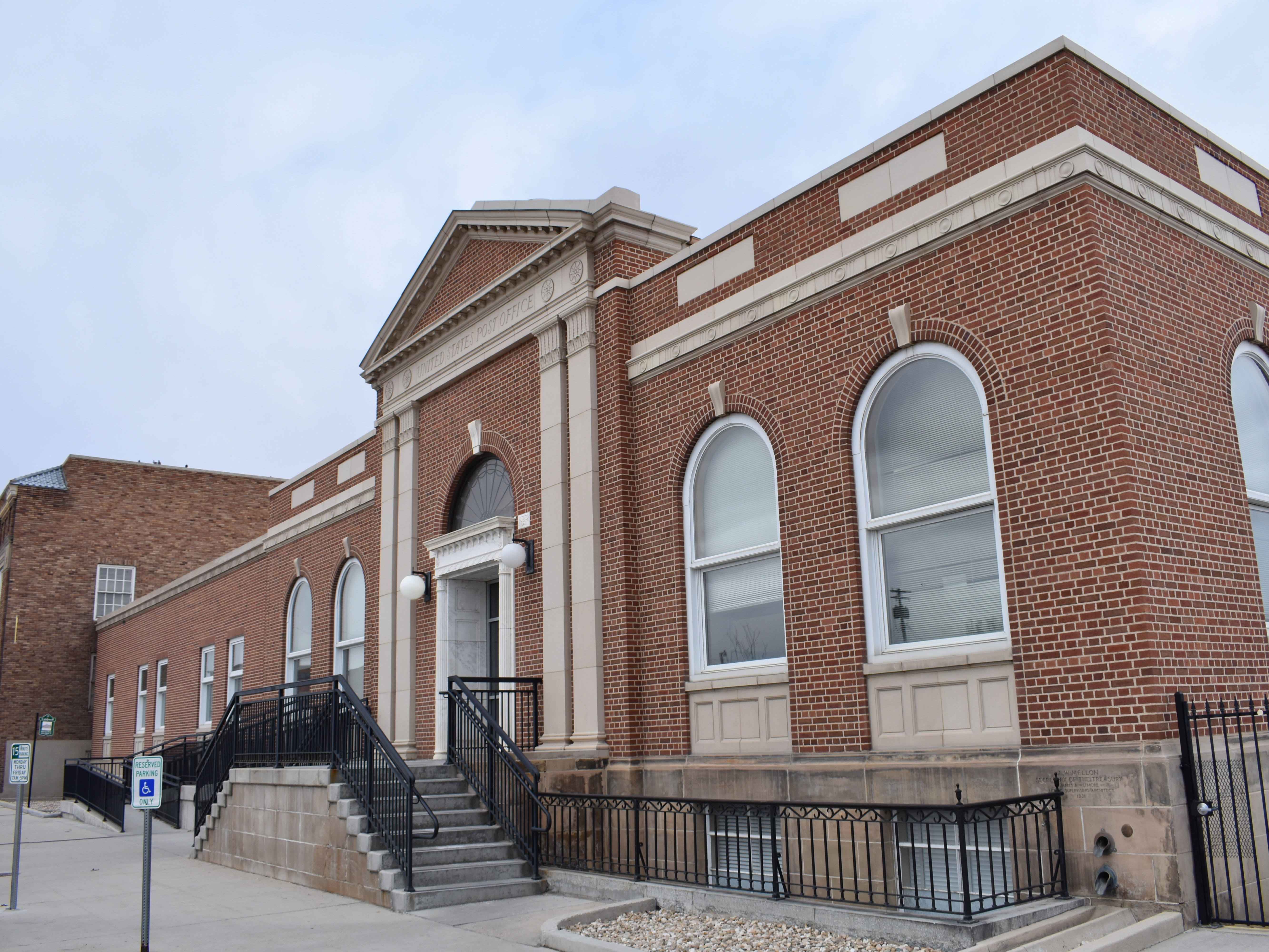 The U.S. Post Office (1932) in Caldwell, Idaho, is listed on the National Register of Historic Places.